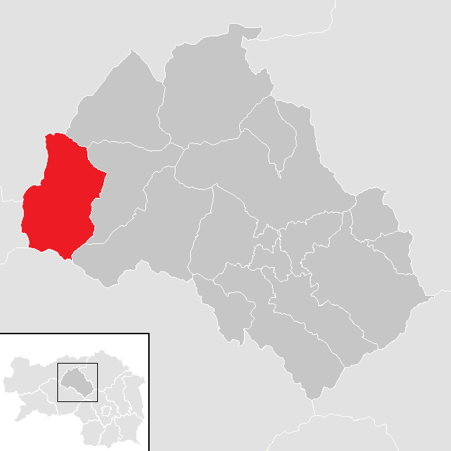 District Leoben